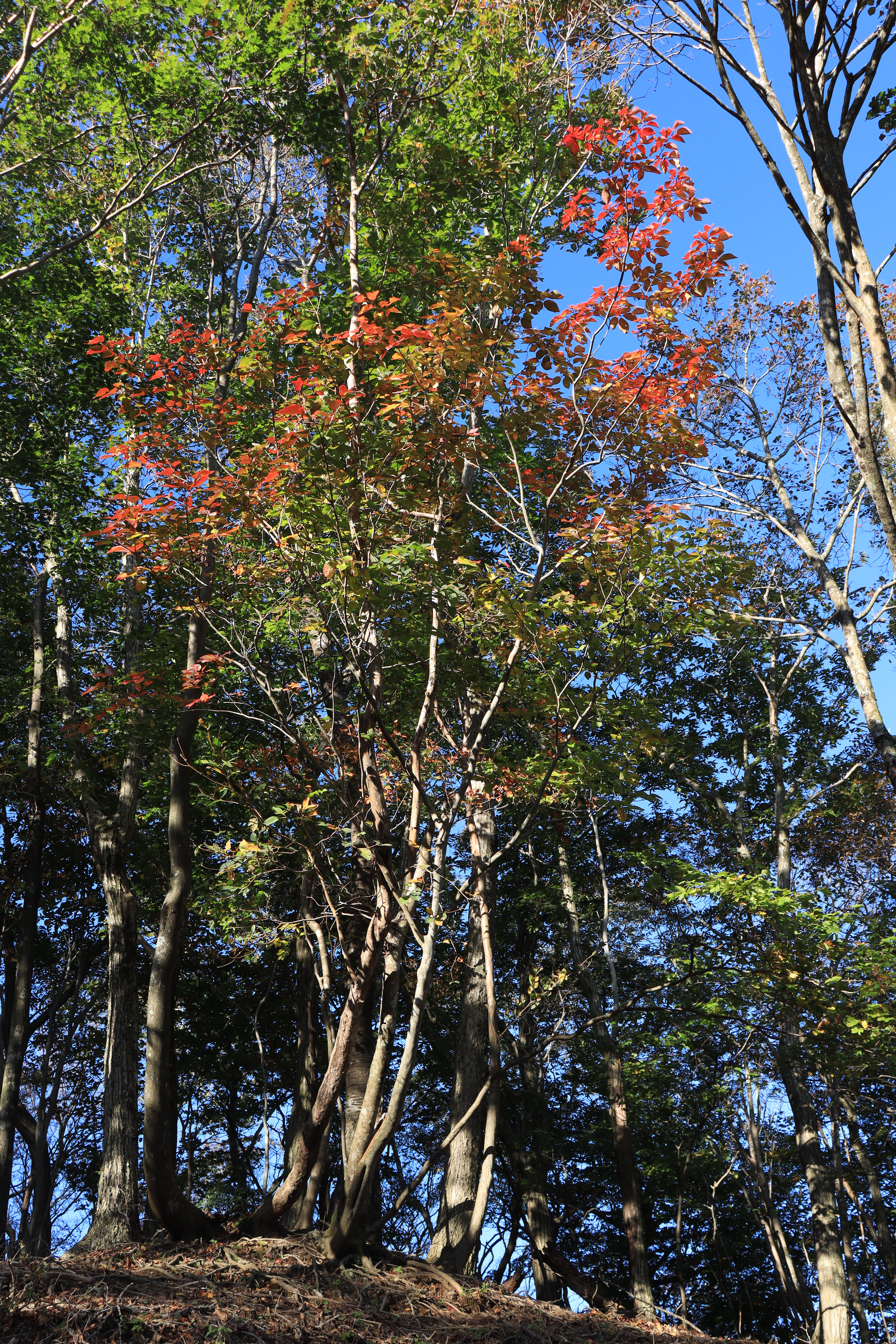 Neoshirakia japonica in Suzuka Mountains, Inabe, Mie Prefecture, Japan.